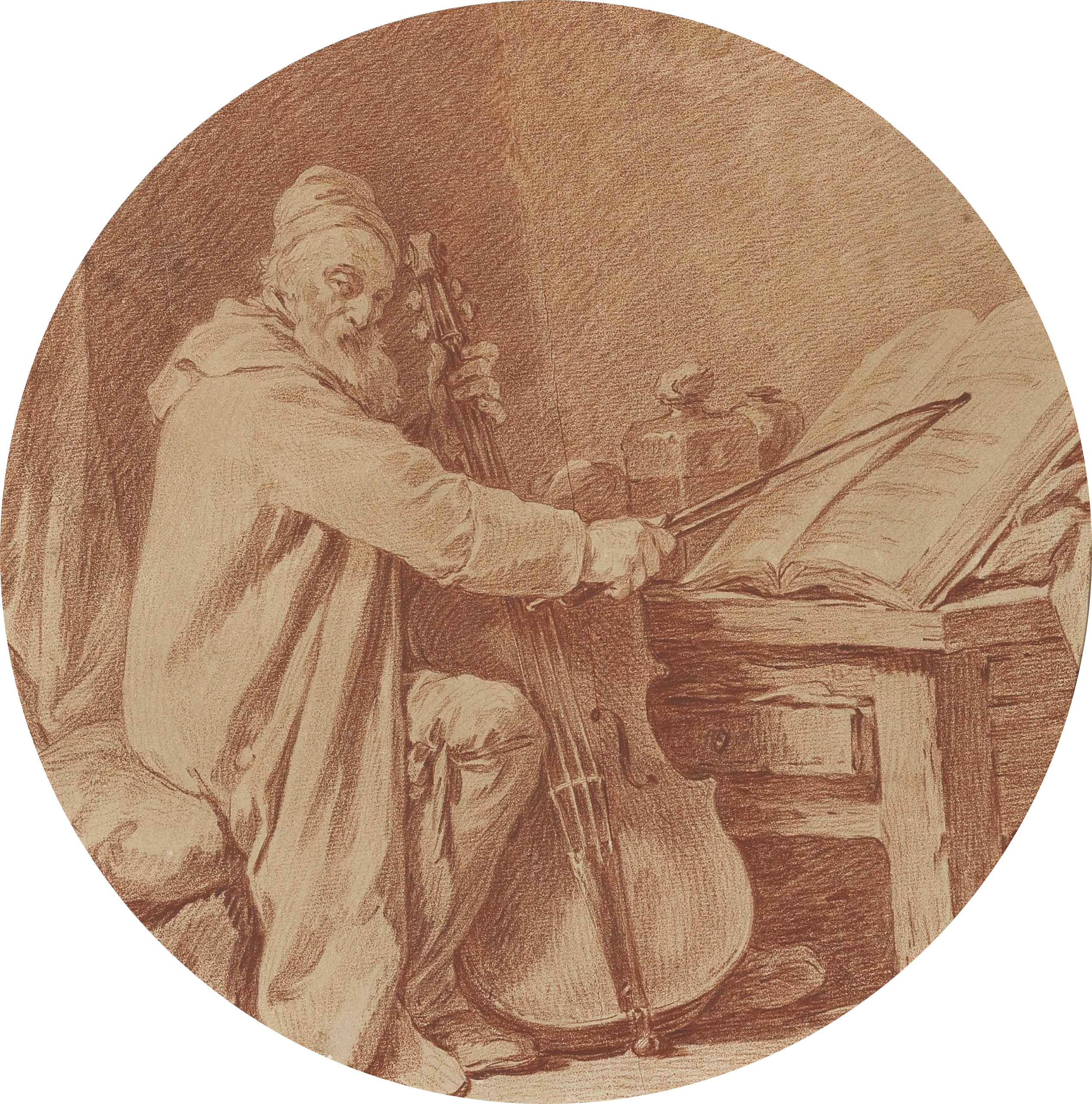 The cellist Martin Berteau red chalk 27.6 x 27.4 cm